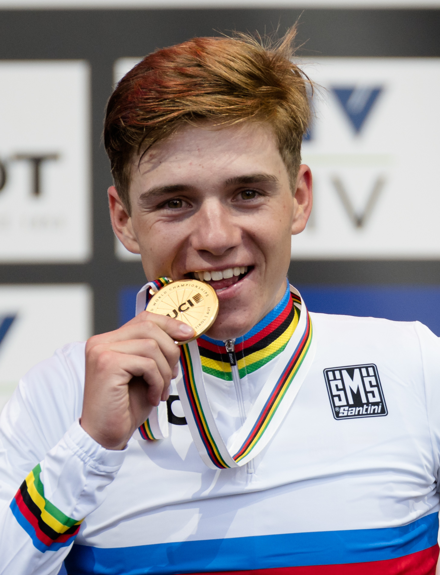 2018 UCI Road World Championships Innsbruck/Tirol Men Juniors Road Racel. Picture shows: Remco Evenepoel of Belgium